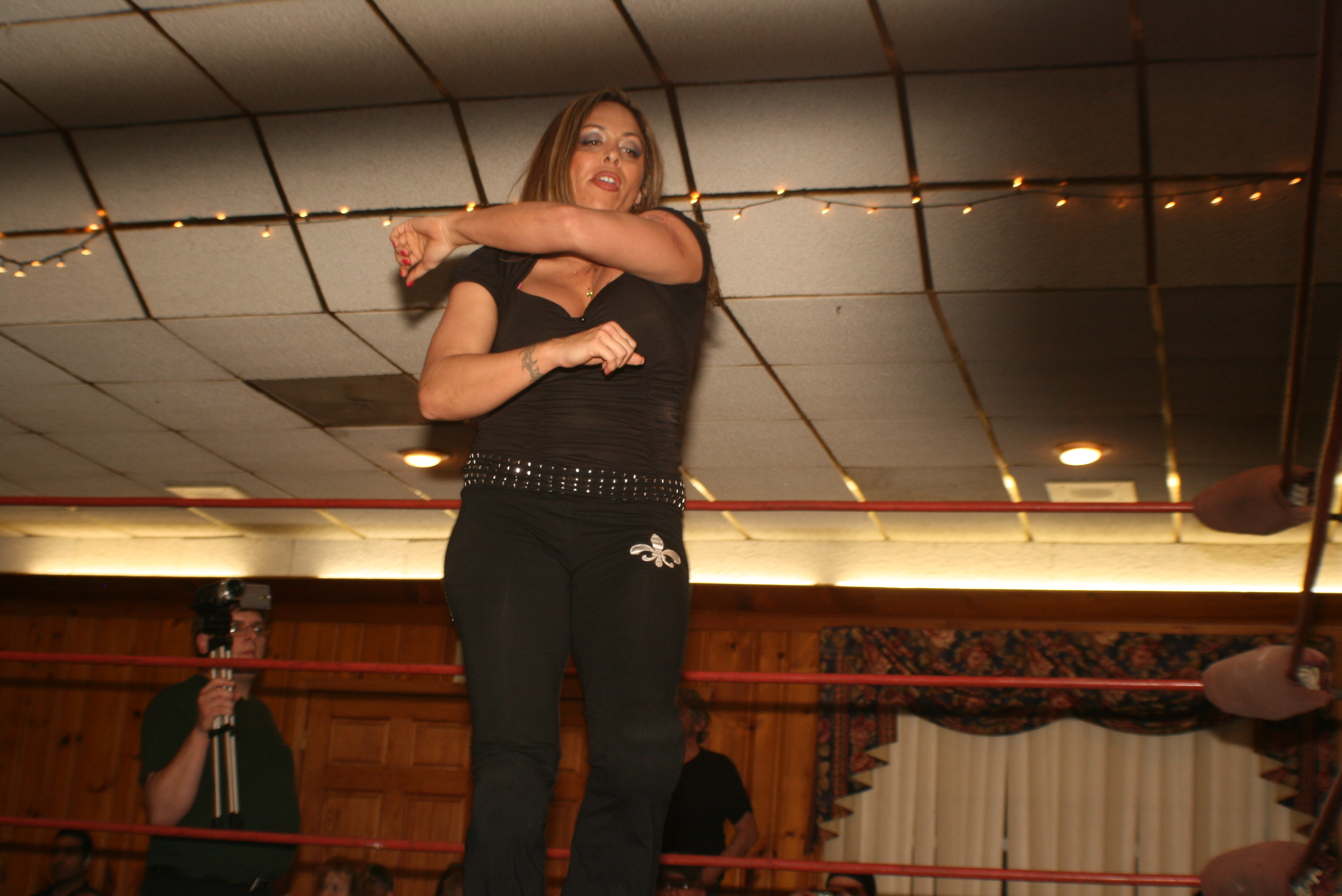 Angel Orsini at a Womens Superstars Uncensored show in Neptune on April 3, 2010.